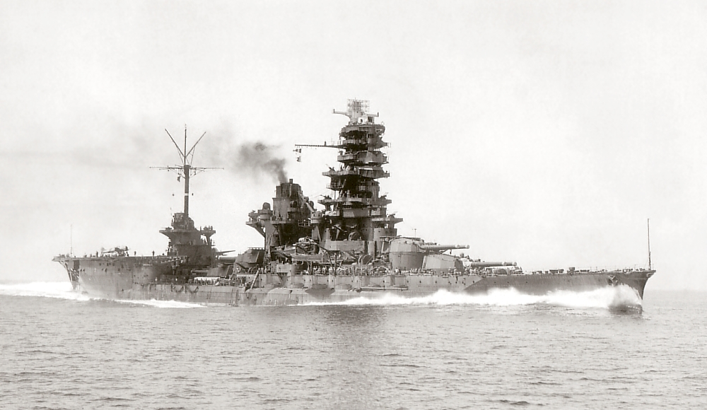 Battleship-carrier Ise after conversion running full power trial on Aug 24, 1943.